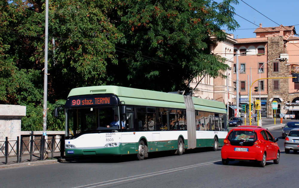 A Solaris-Ganz-built trolleybus, model Trollino 18, on Rome route 90. It is inbound on Via Nomentana just south of Piazza Sempione. It was built in 2004.